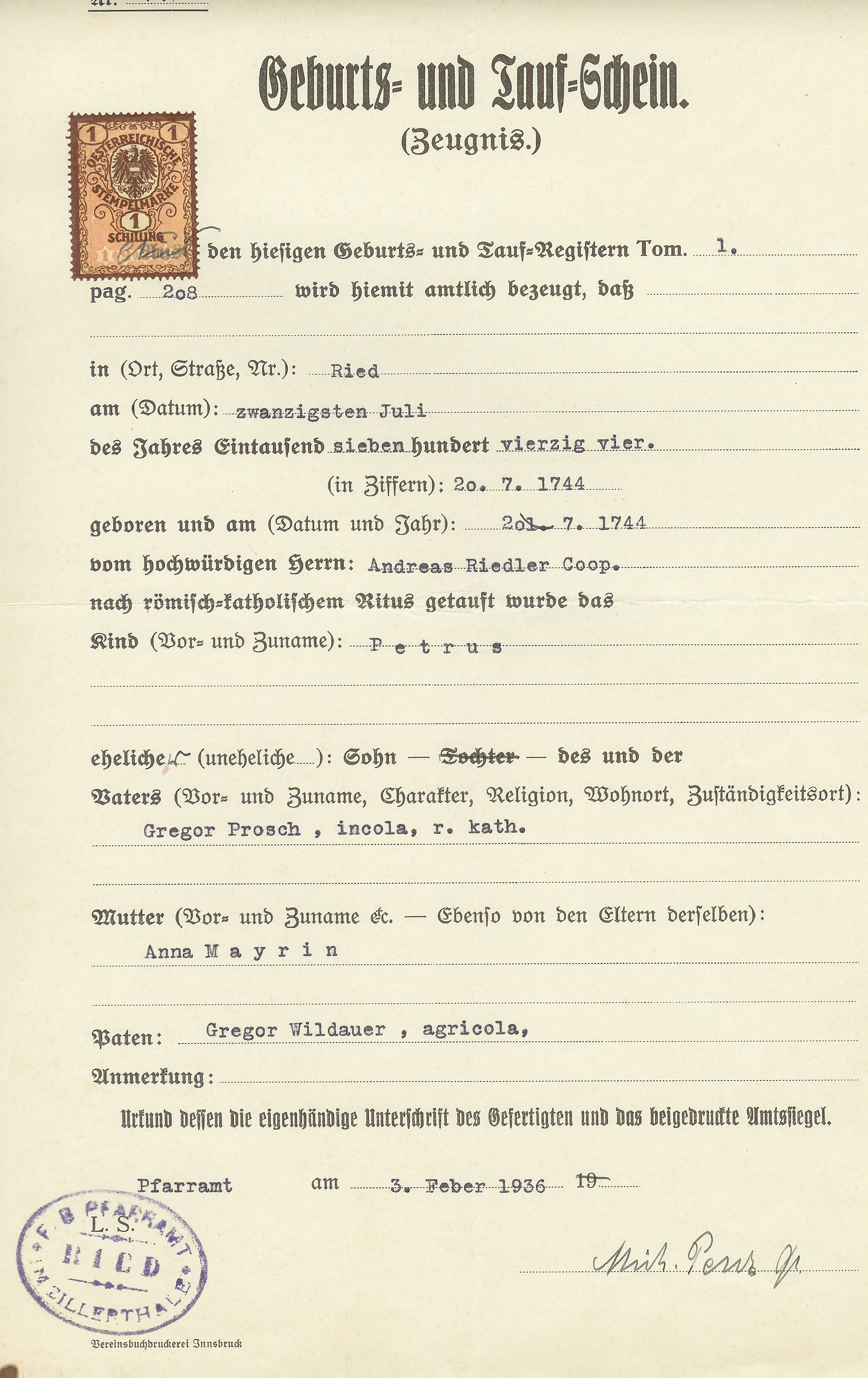 Birth certificate of Peter Prosch